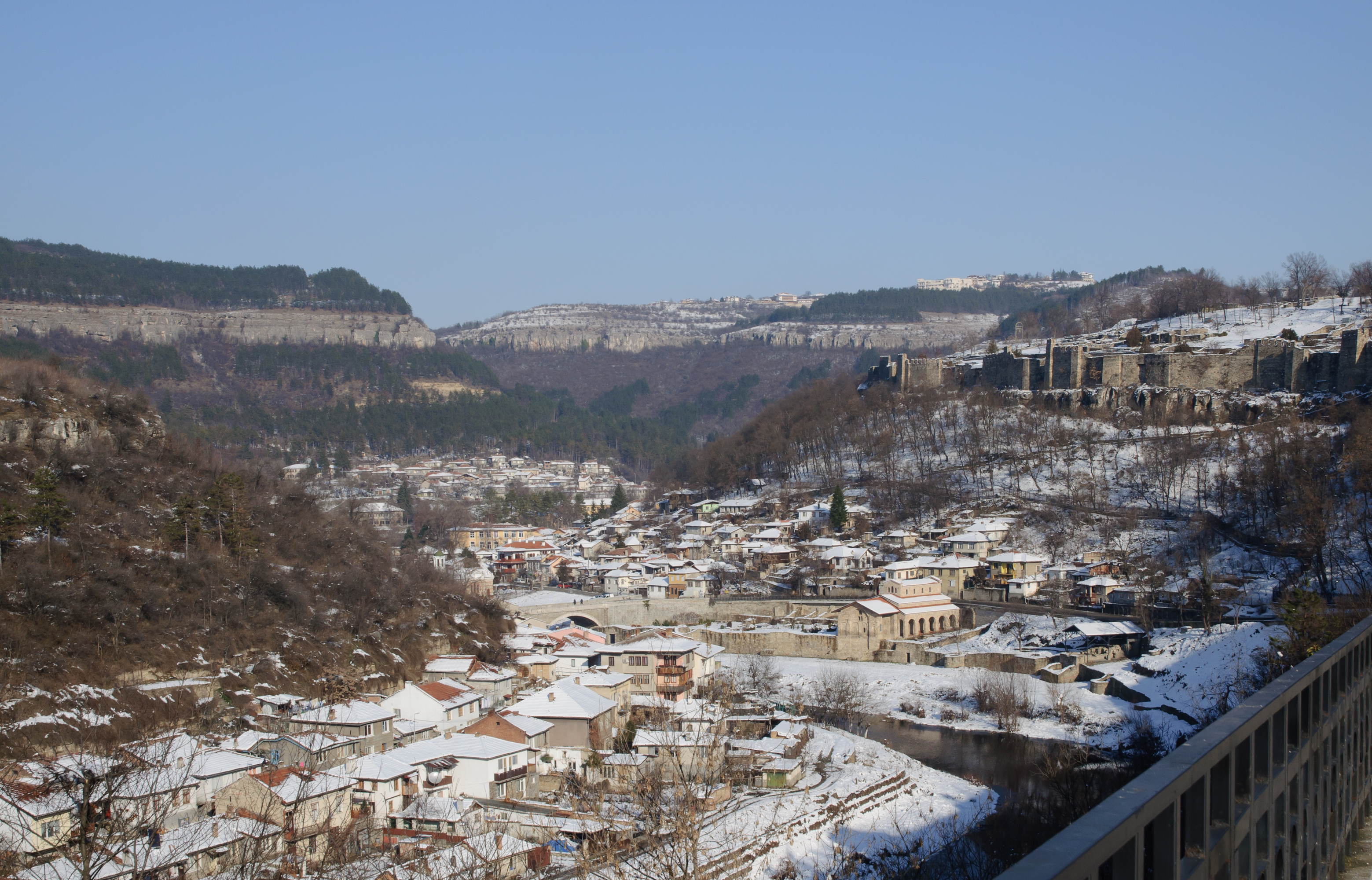 Winter view of Asenova Mahala neighbourhood, situated alongside Yantra river in the city of Veliko Tarnovo, Bulgaria. The medieval church of the Holy Forty Martyrs can be seen close to the river. Tsarevets stronghold can be also seen in the upper right part.